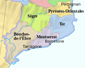 Catalonia under the Napoleonic Empire